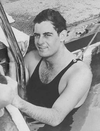 1938 International HOF Swimmer Ralph Flanagan Press Photo